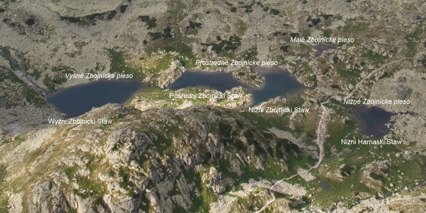 Zbojnícké plesá in Veľká Studená dolina, with Slovak and Polish names.